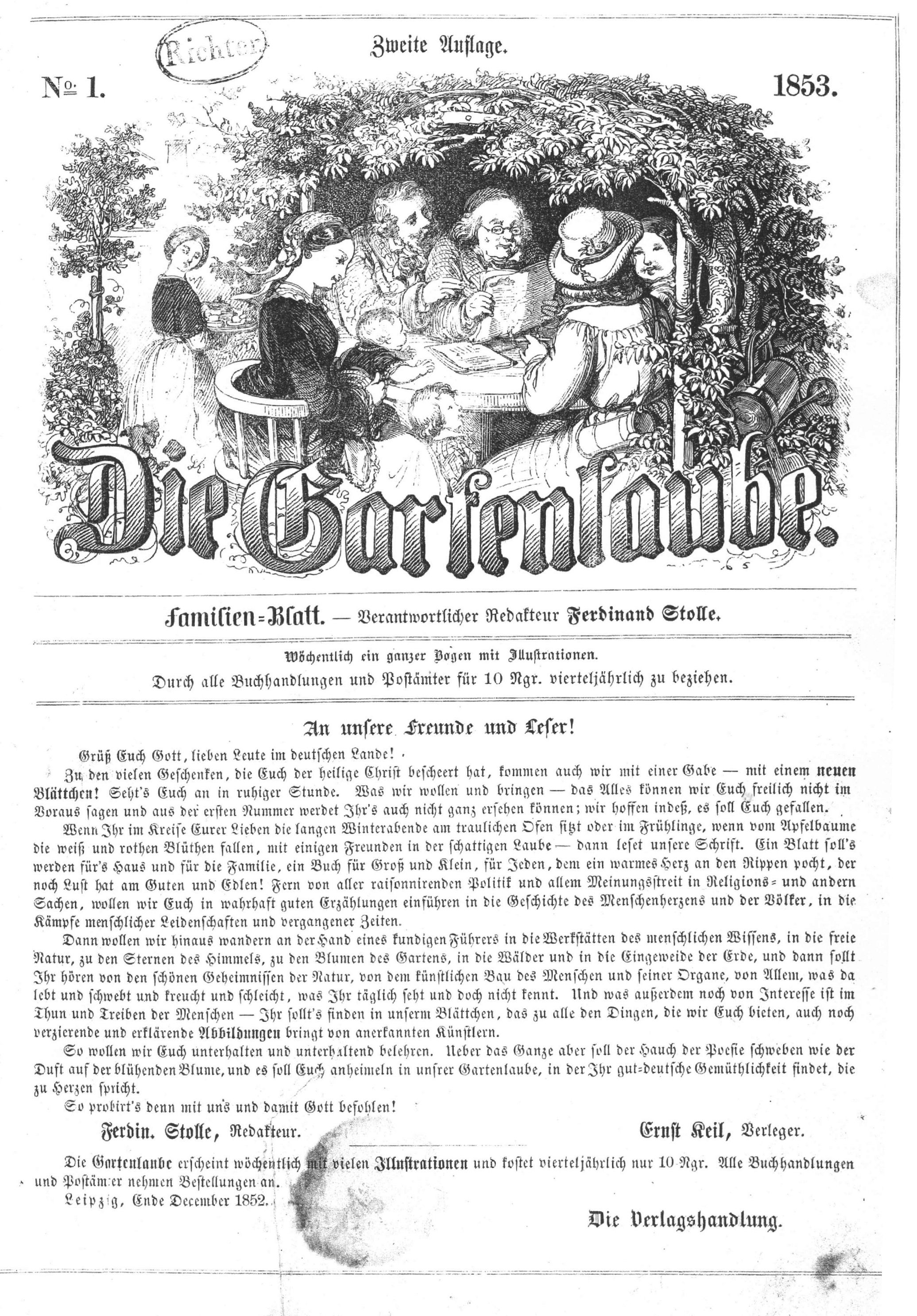 no caption